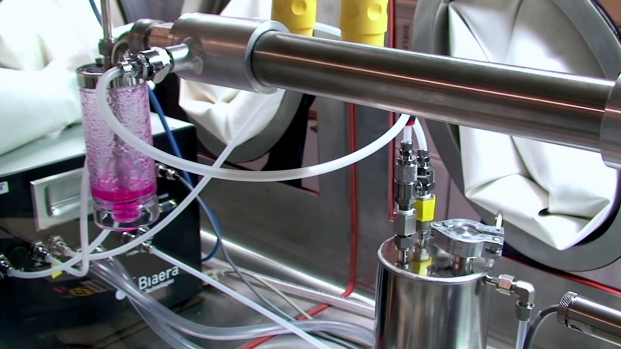 Aerosol control platform inside a Class III Biosafety Cabinet at biosafety level 4 (BSL-4) laboratory of the NIAID Integrated Research Facility (IRF) in Frederick, Maryland. This image is part of "The NIAID Integrated Research Facility in Frederick, Maryland" video. Courtesy: National Institute of Allergy and Infectious Diseases.